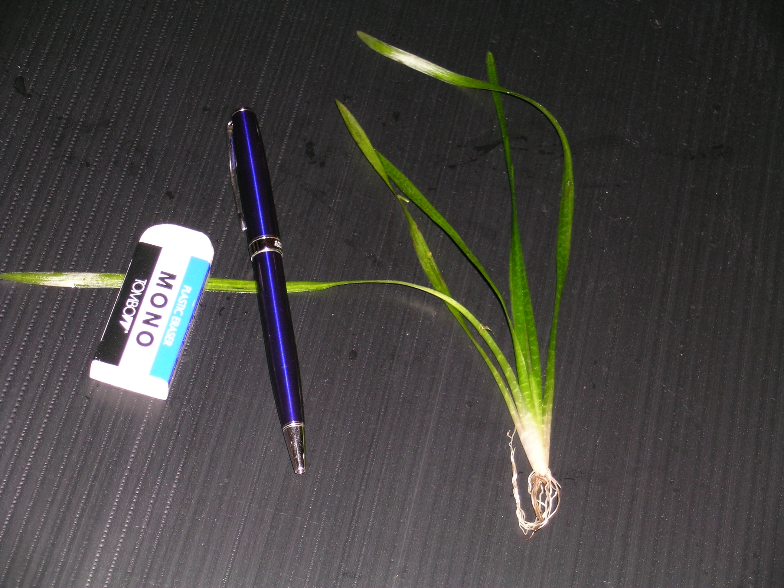 Vallisneria_asiatica_var._biwaensisThis is a cultivated water plant from Lake Biwa in Japan. This plant is used in home aquariums in Japan. photo:S.Tanaka